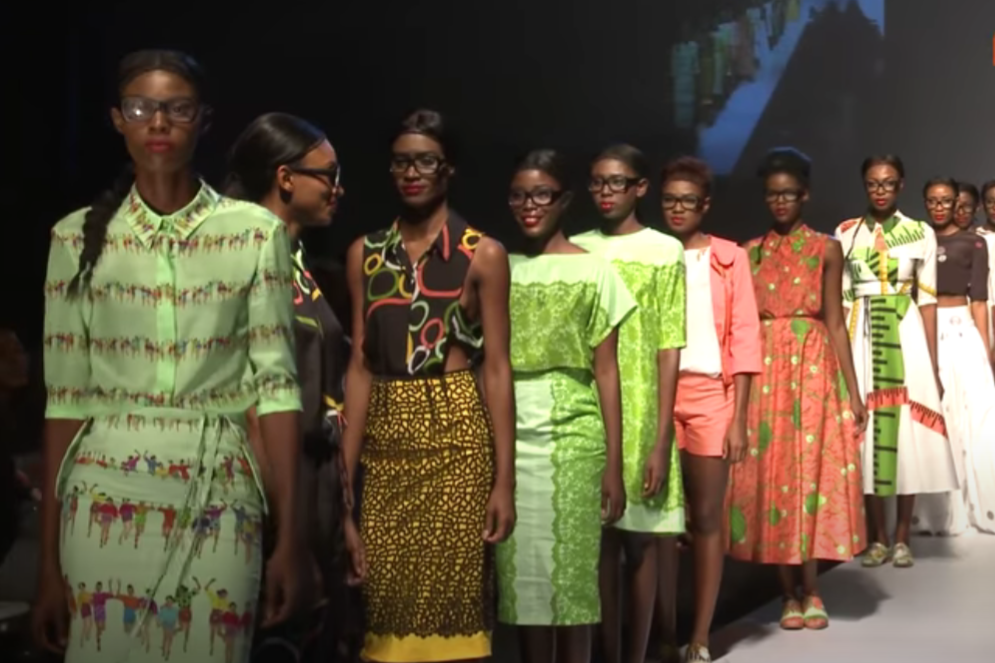 GTBank Lagos Fashion & Design Week 2014 - Ituen Basi